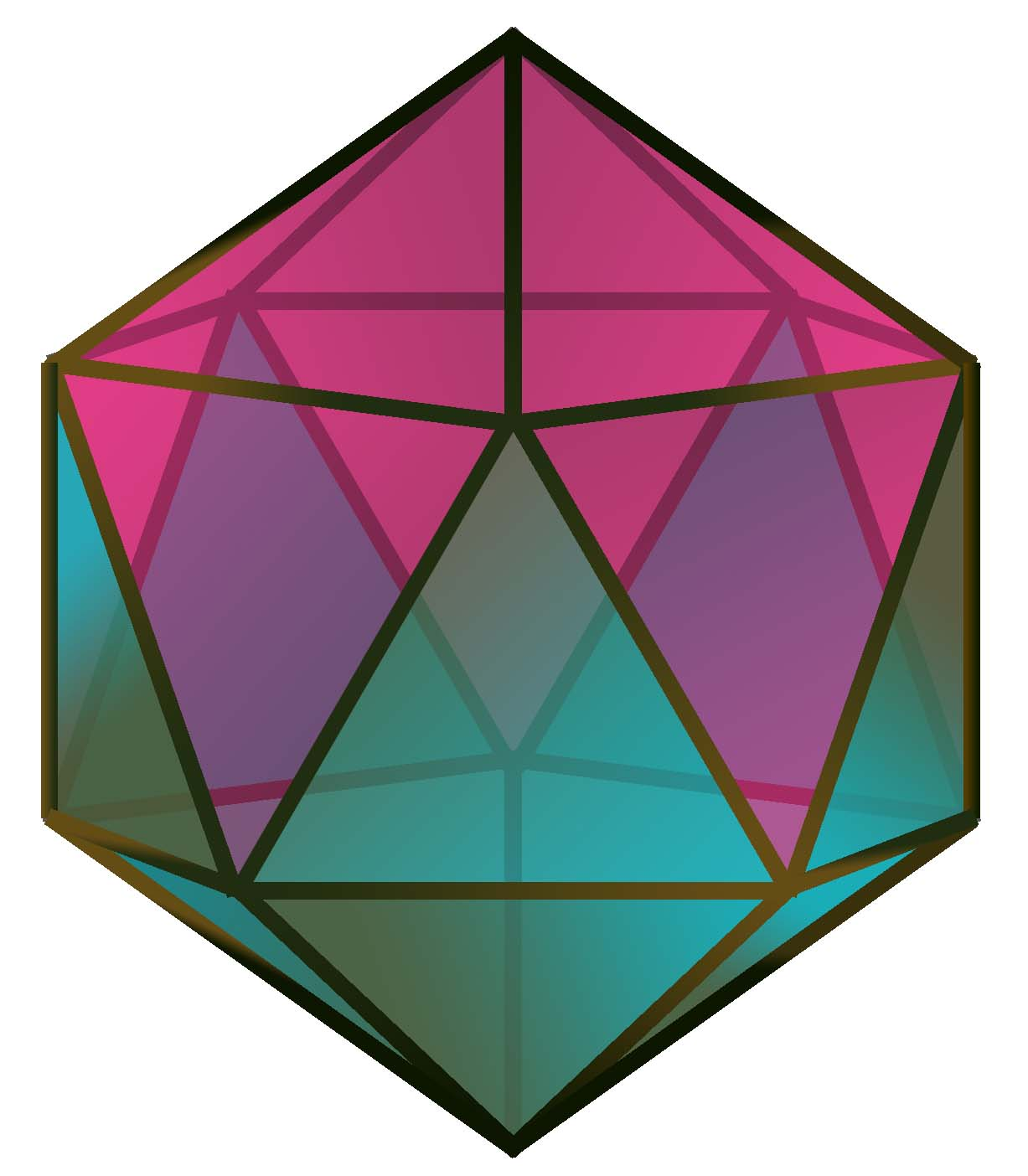 Icosahedron, 3D